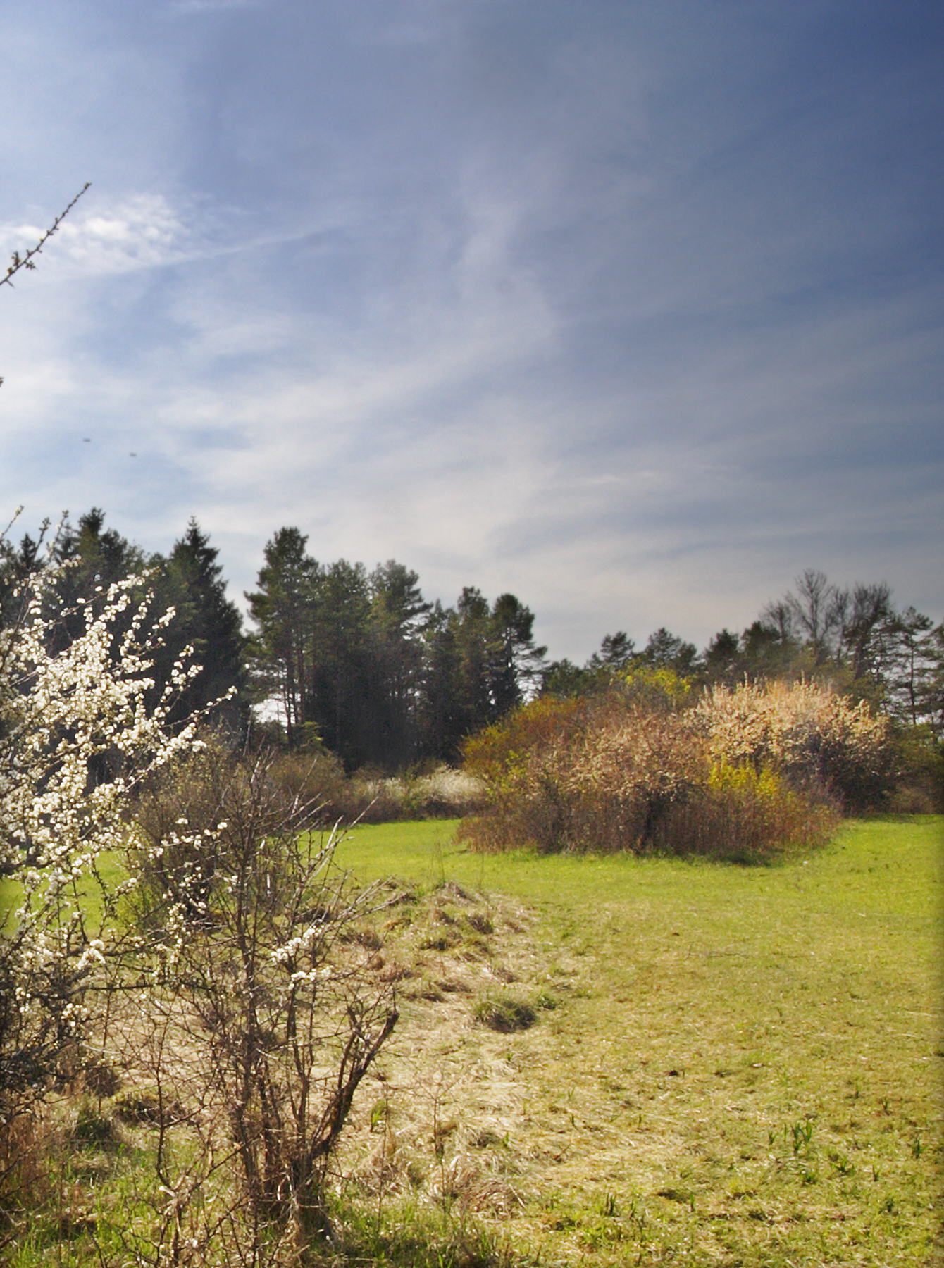 nature reserve Eichholz next to the village Eglingen, Swabian Alb. The reserve was excluded from all measures of land consolidation, in order to preserve the historically small scales of fields with their multifunctional hedges for peasantry. To modern agriculture, however, these natural borders are considered absolutely useless obstacles. They are not attended anymore and in that case the woody plants often fade away. Only lately, it was by ecology, that the eminent importance of stringed stone and hedges as species-rich biotopes and habitats were emphasized.